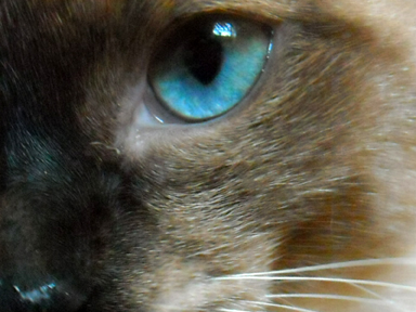 thai cat, siamese cat breed, thaicat, traditional siamese, old style siamese, applehead siamese, Classic Siamese